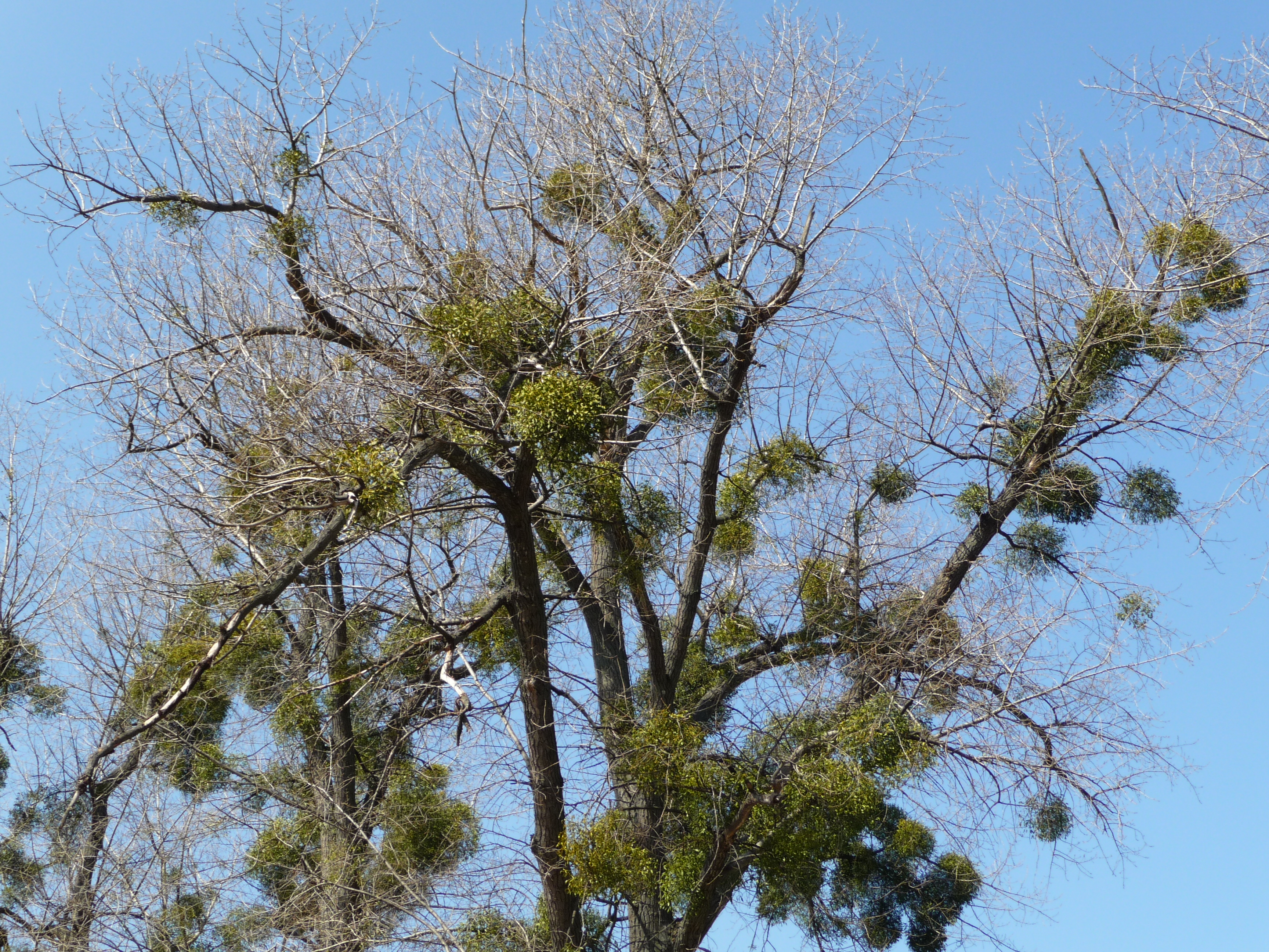 Viscum album on the Populus. Ukraine.